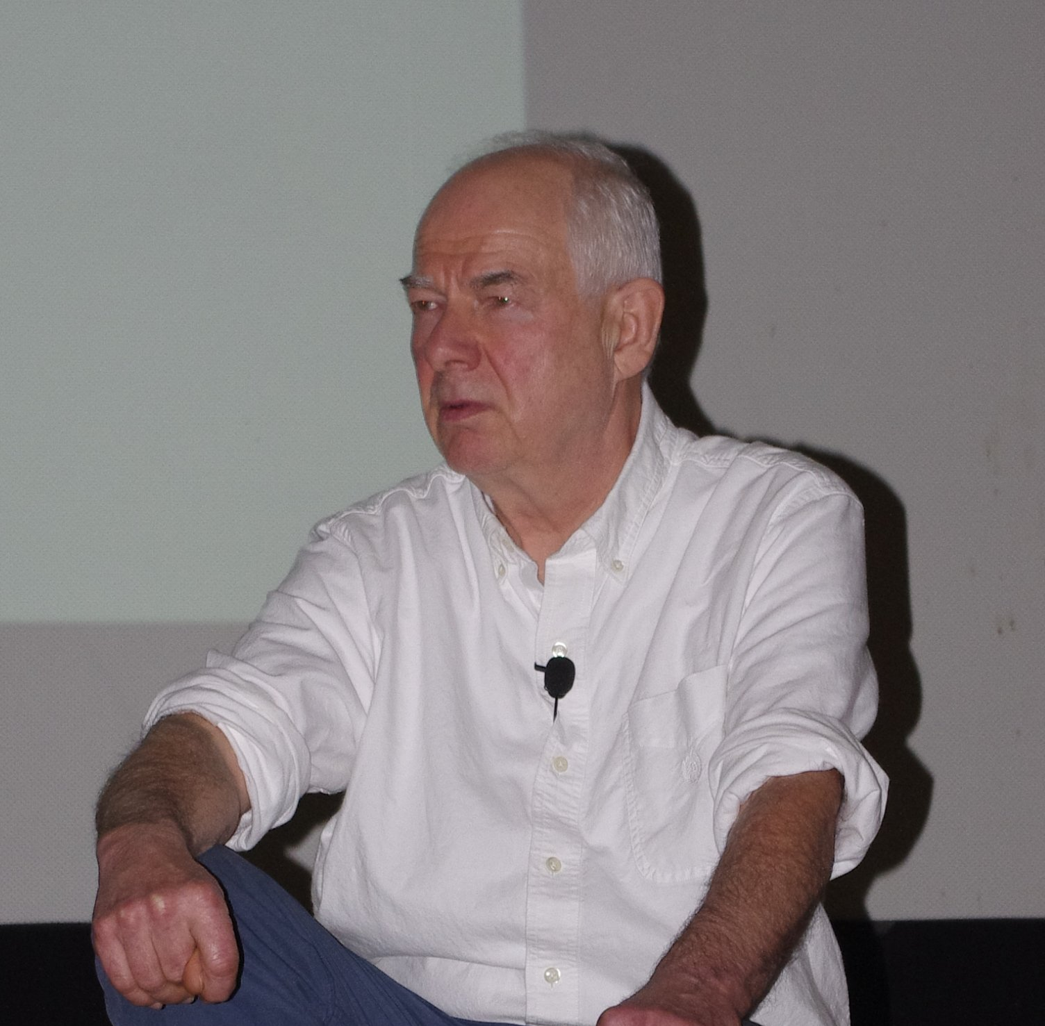 Kalle Lasn at the Norm Theatre at UBC for the launch of his book Meme Wars